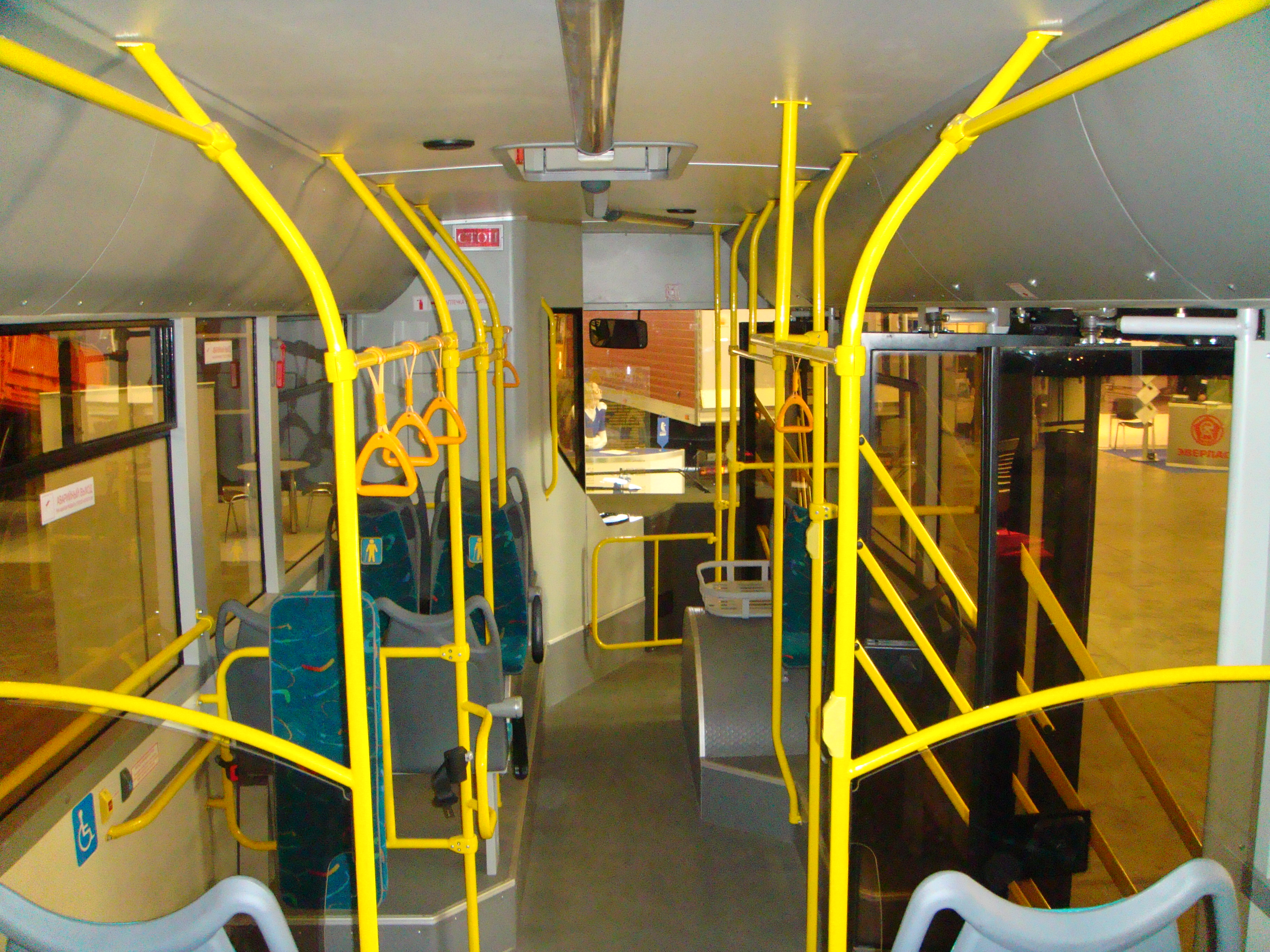 BAZ A11110 bus interior in Kiev, Ukraine. TIR 2010.